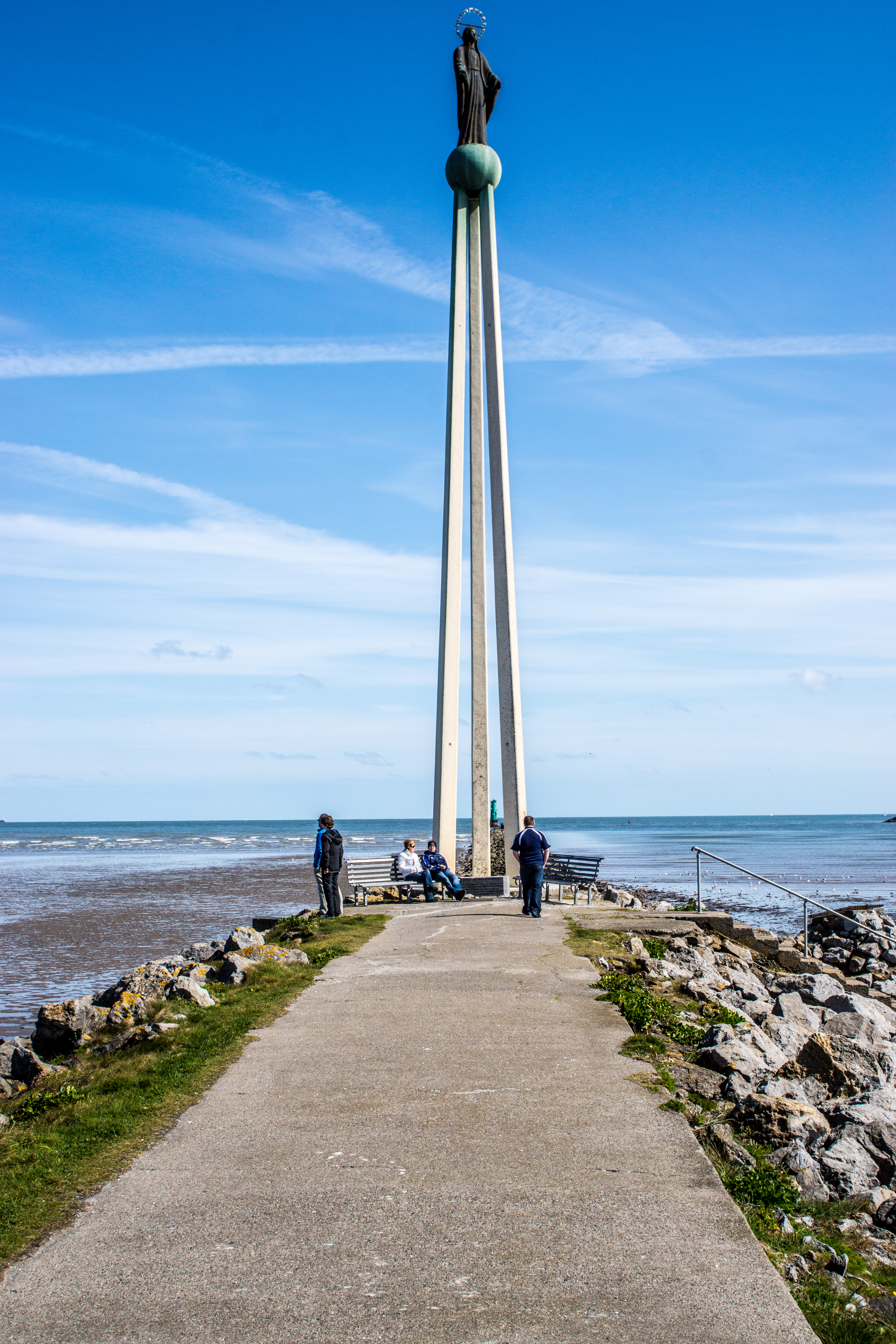 statue of Our Lady, Star of the Sea (Realt na Mara) - North Bull Island